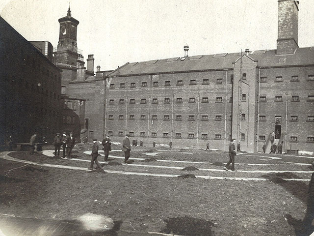 1916 photograph of HM Prison Wakefield